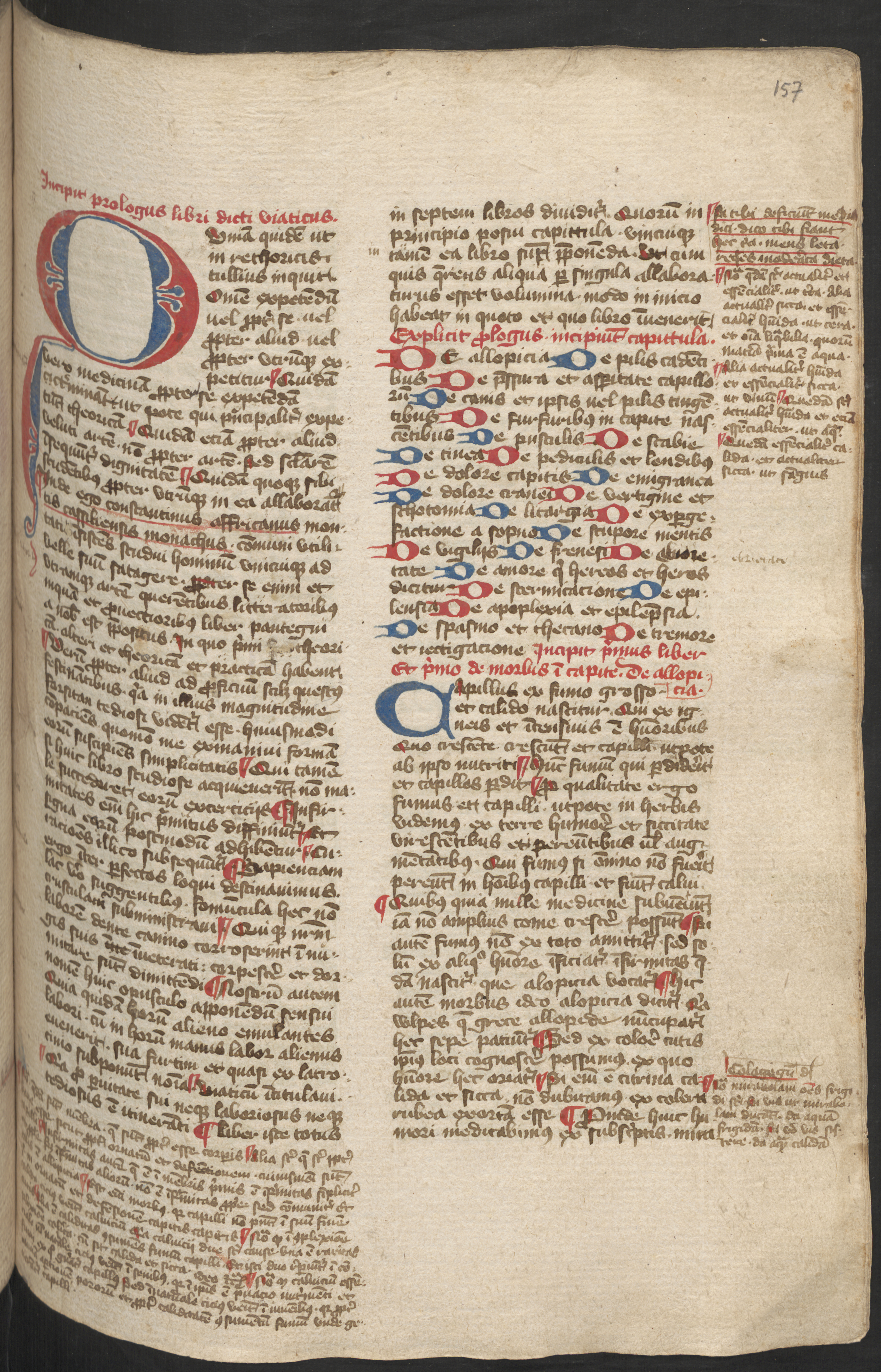 Ms.685, fol. 157r.